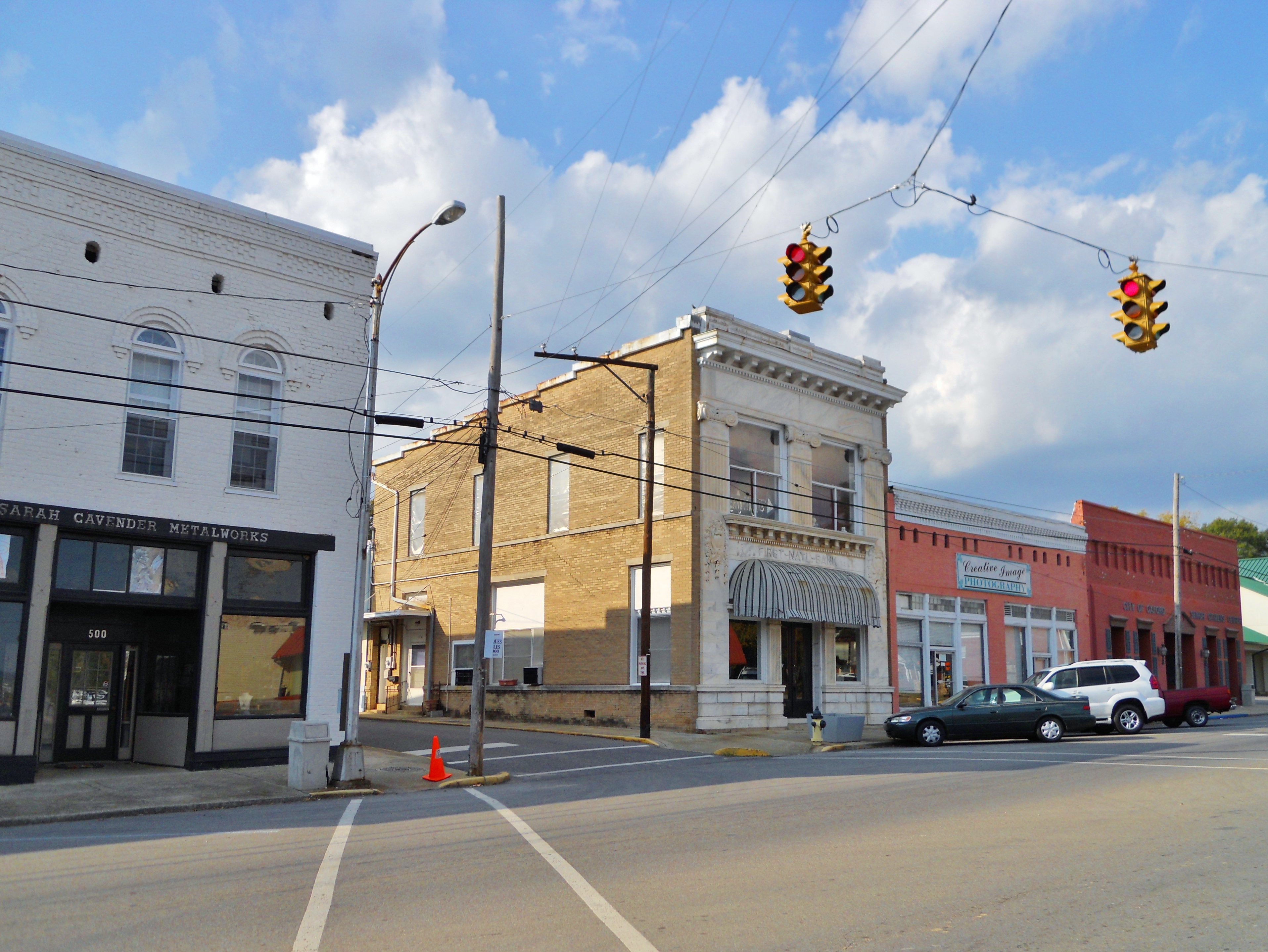 This is a photograph of downtown Oxford, Alabama.